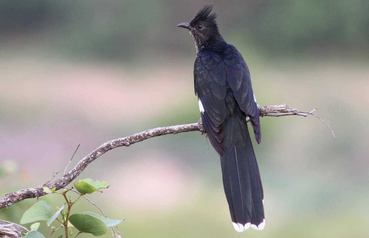 Levaillant's Cuckoo, or African Striped Cuckoo, Clamator levaillantii, at Shingwedzi, Kruger Park